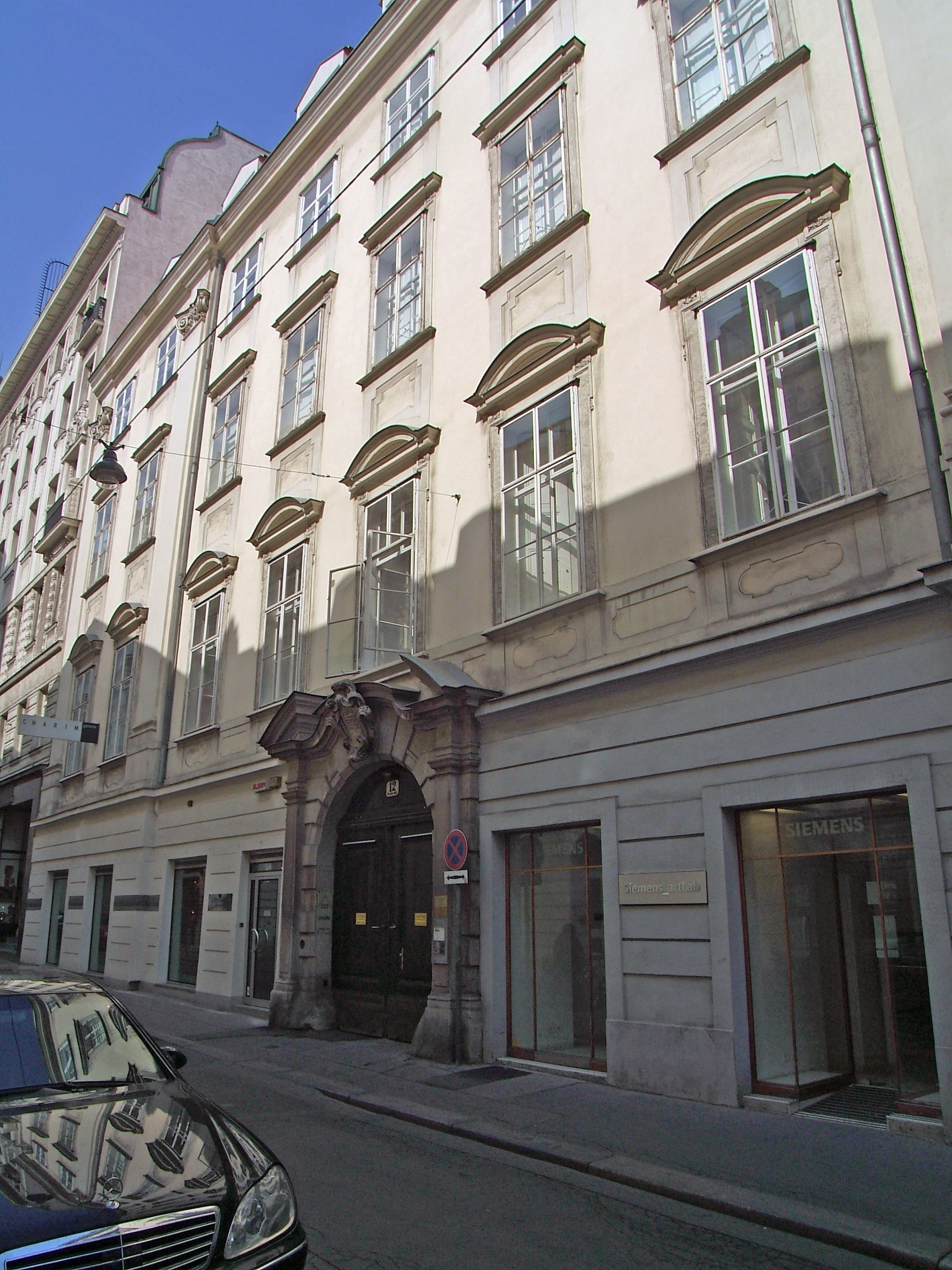 Palais Gatterburg in Vienna 1st district Doroteergasse 12